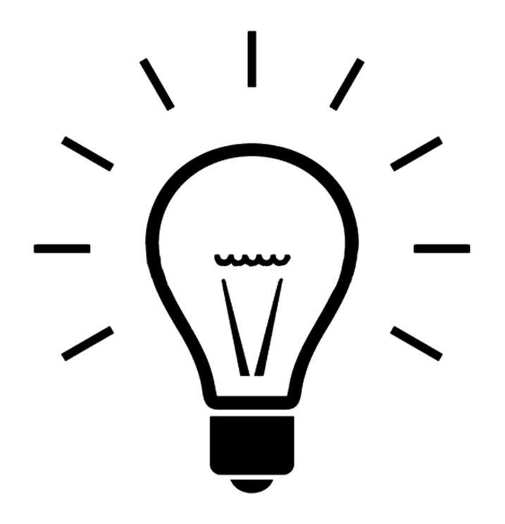 mn